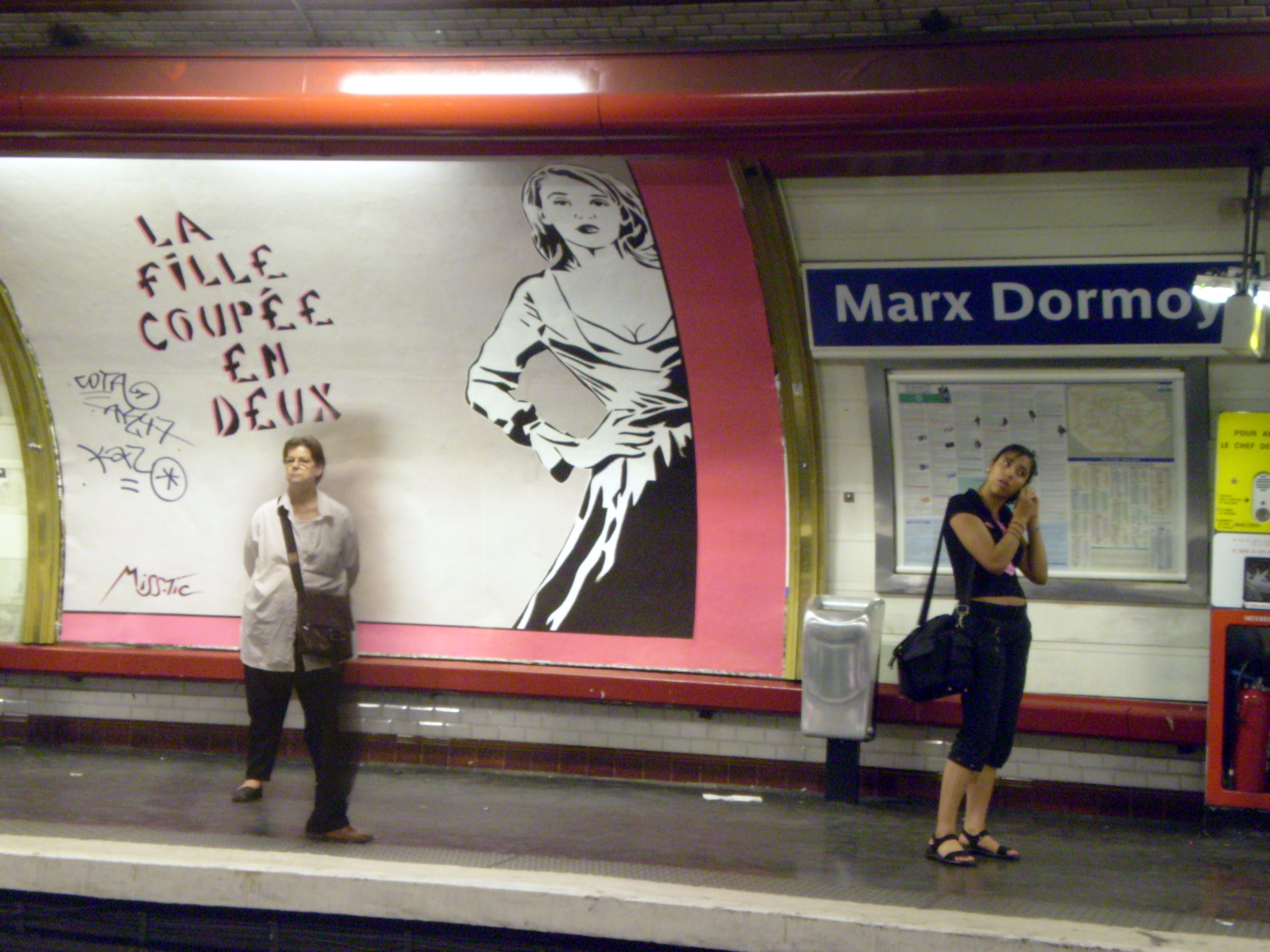 Marx Dormoy metro stations